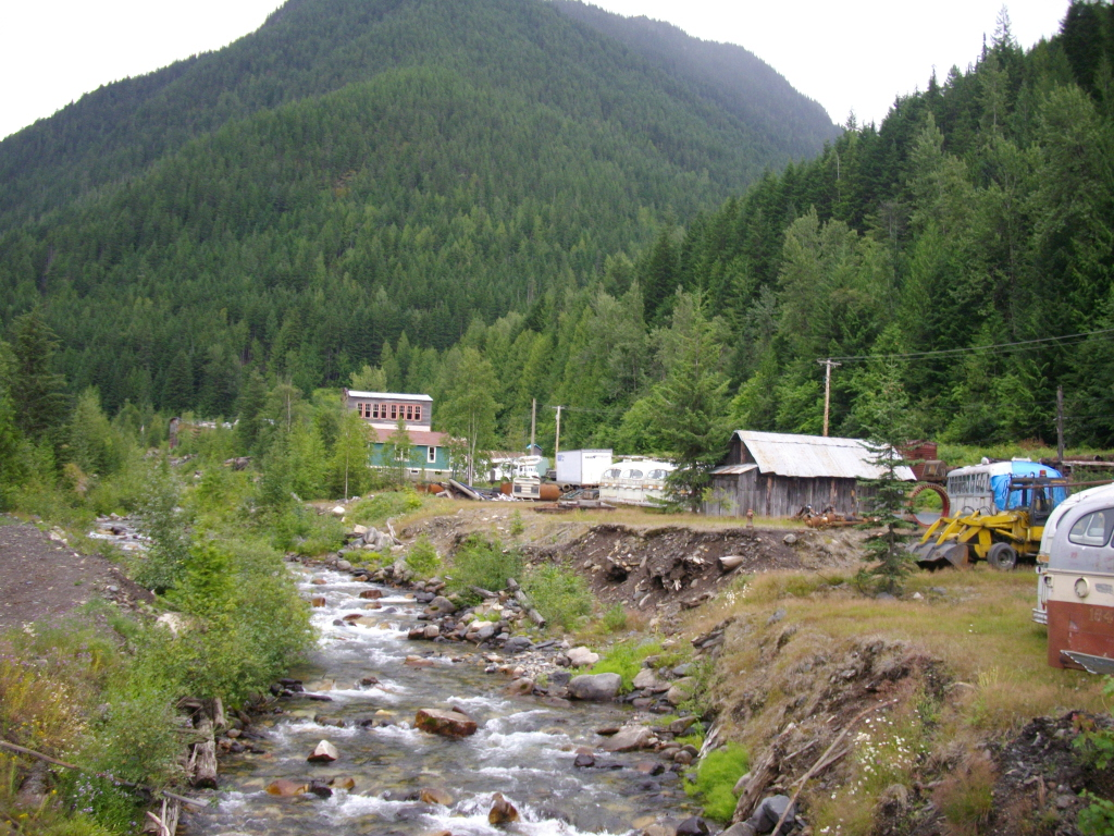 view of Carpenter Creek and Sandon